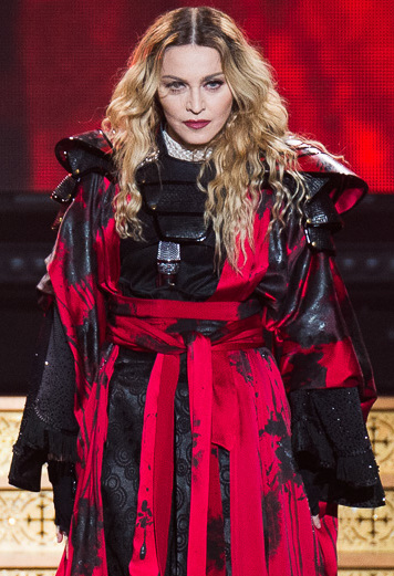 Rebel Heart Tour opening night